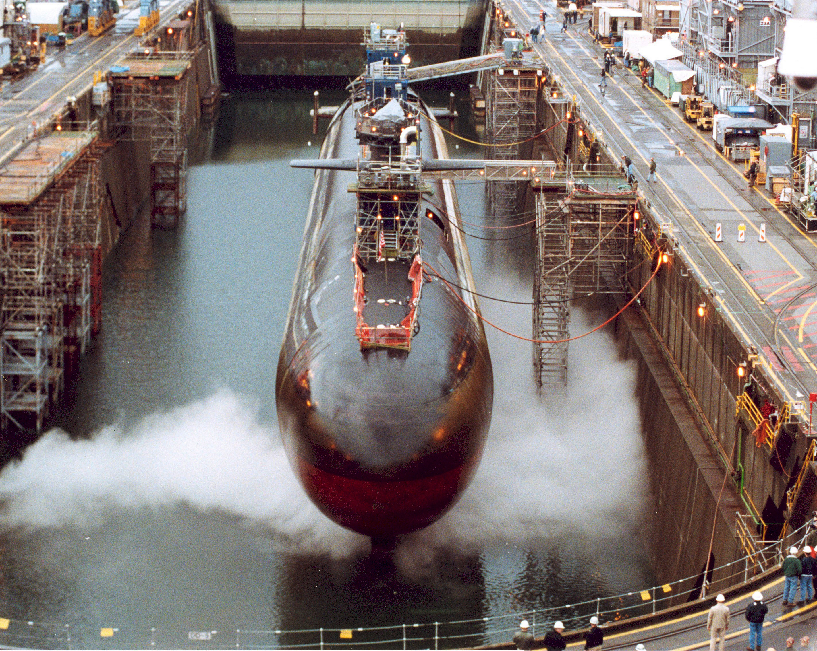 Puget Sound Naval Shipyard, Wash. (Aug. 14, 2003) -- USS Ohio (SSGN 726) is in dry dock undergoing a conversion from a Ballistic Missile Submarine (SSBN) to a Guided Missile Submarine (SSGN) designation. Ohio has been out of service since Oct. 29, 2002 for conversion to SSGN at Puget Sound Naval Shipyard. Four Ohio-class strategic missile submarines, USS Ohio (SSBN 726), USS Michigan (SSBN 727) USS Florida (SSBN 728), and USS Georgia (SSBN 729) have been selected for transformation into a new platform, designated SSGN. The SSGNs will have the capability to support and launch up to 154 Tomahawk missiles, a significant increase in capacity compared to other platforms. The 22 missile tubes also will provide the capability to carry other payloads, such as unmanned underwater vehicles (UUVs), unmanned aerial vehicles (UAVs) and Special Forces equipment. This new platform will also have the capability to carry and support more than 66 Navy SEALs (Sea, Air and Land) and insert them clandestinely into potential conflict areas. U.S. Navy file photo. (RELEASED)